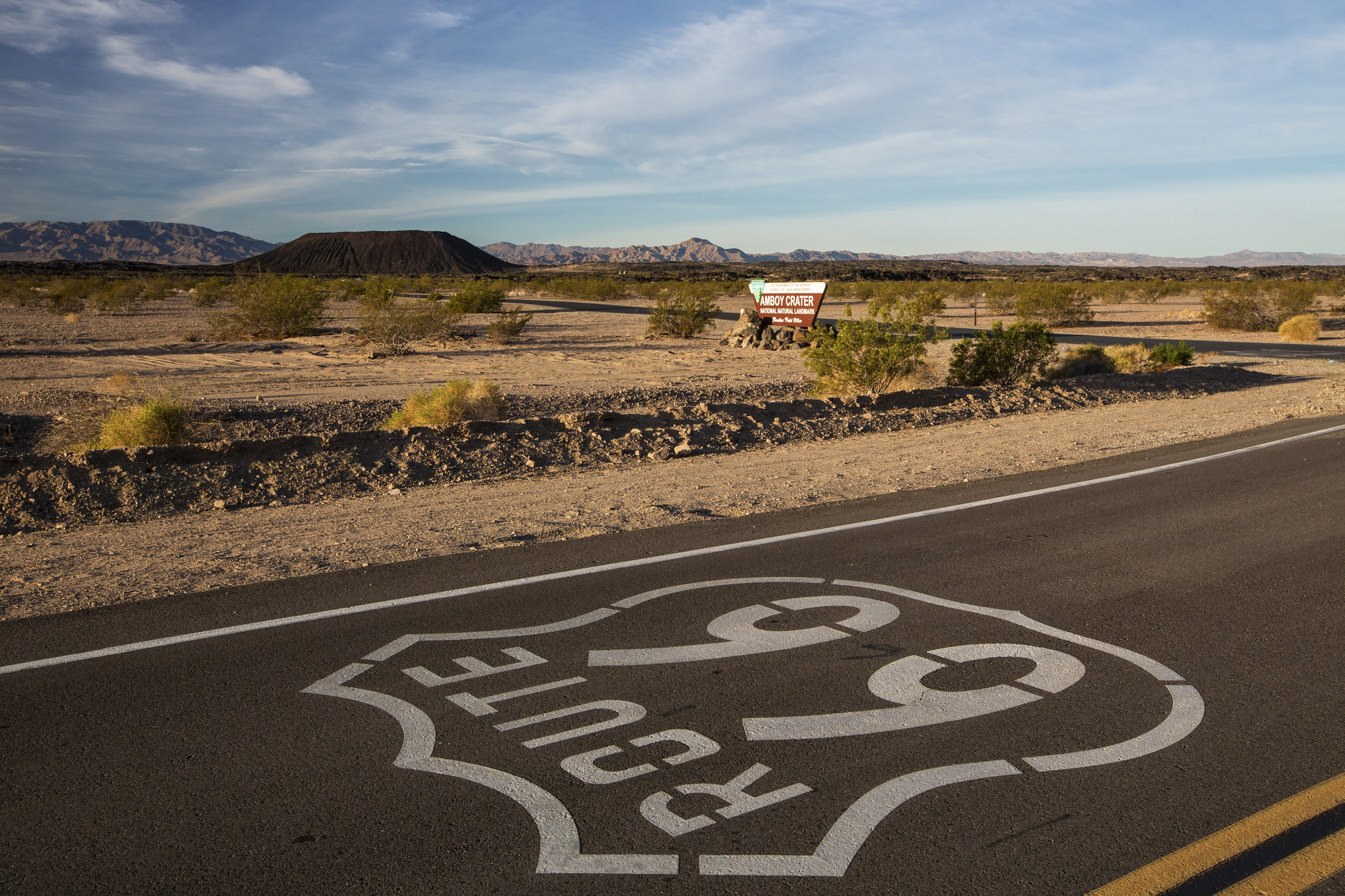 Amboy Crater Area of Critical Environmental Concern (ACEC) is an extinct cinder cone located just off of historic Route 66 between Barstow and Needles - the area was bypassed by Interstate 40 in the early ’70s. Before then, especially from the end of WWII through the ’60s, it was a major attraction along this Main Street of America, and many visitors would “get their kicks” by climbing Amboy Crater so they could brag about conquering a real volcano. After the climb, visitors would head to Roy’s Cafe in the nearby town of Amboy, just a few miles away, to have a cold drink or a meal. Roy’s once employed 70 people and was a bustling stop for travelers. Luckily the current owner is interested in preserving this piece of Americana. Through BLM’s public planning process, Amboy Crater was recognized as an ACEC for its visual and geological significance. The inside of the 250’ high crater contains two lava dams behind which has formed small lava lakes. These appear flat, covered with light colored clay, creating the impression of miniature “dry lakes.” There is a breach on the west side of the crater where basaltic lava poured out over a vast area. Beyond the crater lies 24 square miles of lava flow containing such features as lava lakes, collapsed lava tubes and sinks, spatter cones and massive flows of basalt. The unique landscapes found at Amboy Crater have attracted the filming and research industry - and enthusiastic visitors have followed. Like many ACECs, the Amboy Crater provides breathtaking views, great outdoor recreation opportunities and a slice of American history. -Photos by Bob Wick, BLM